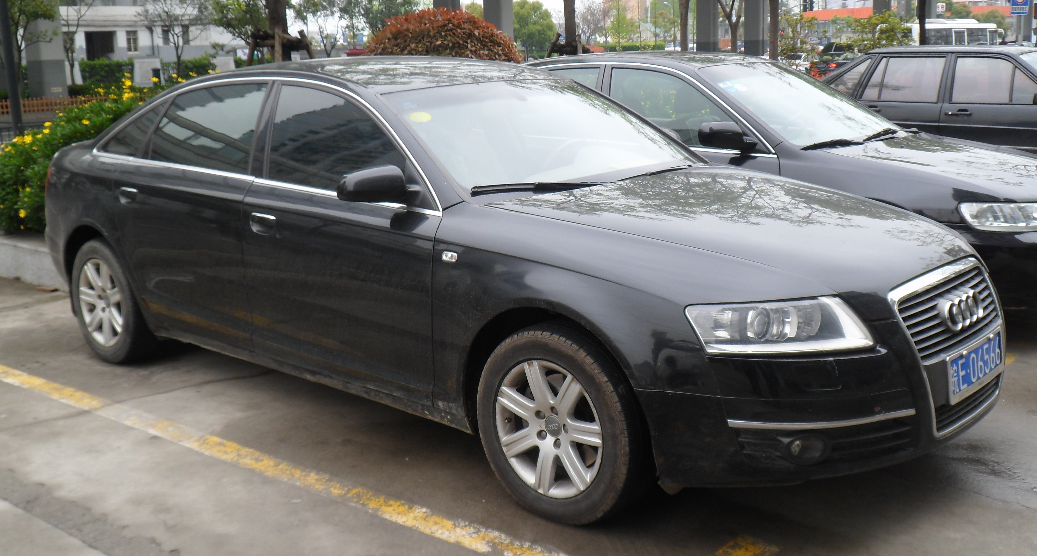 Audi A6L C6 photographed in Shanghai, China.